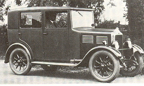 1928 Standard 9 hp Fulham Saloon